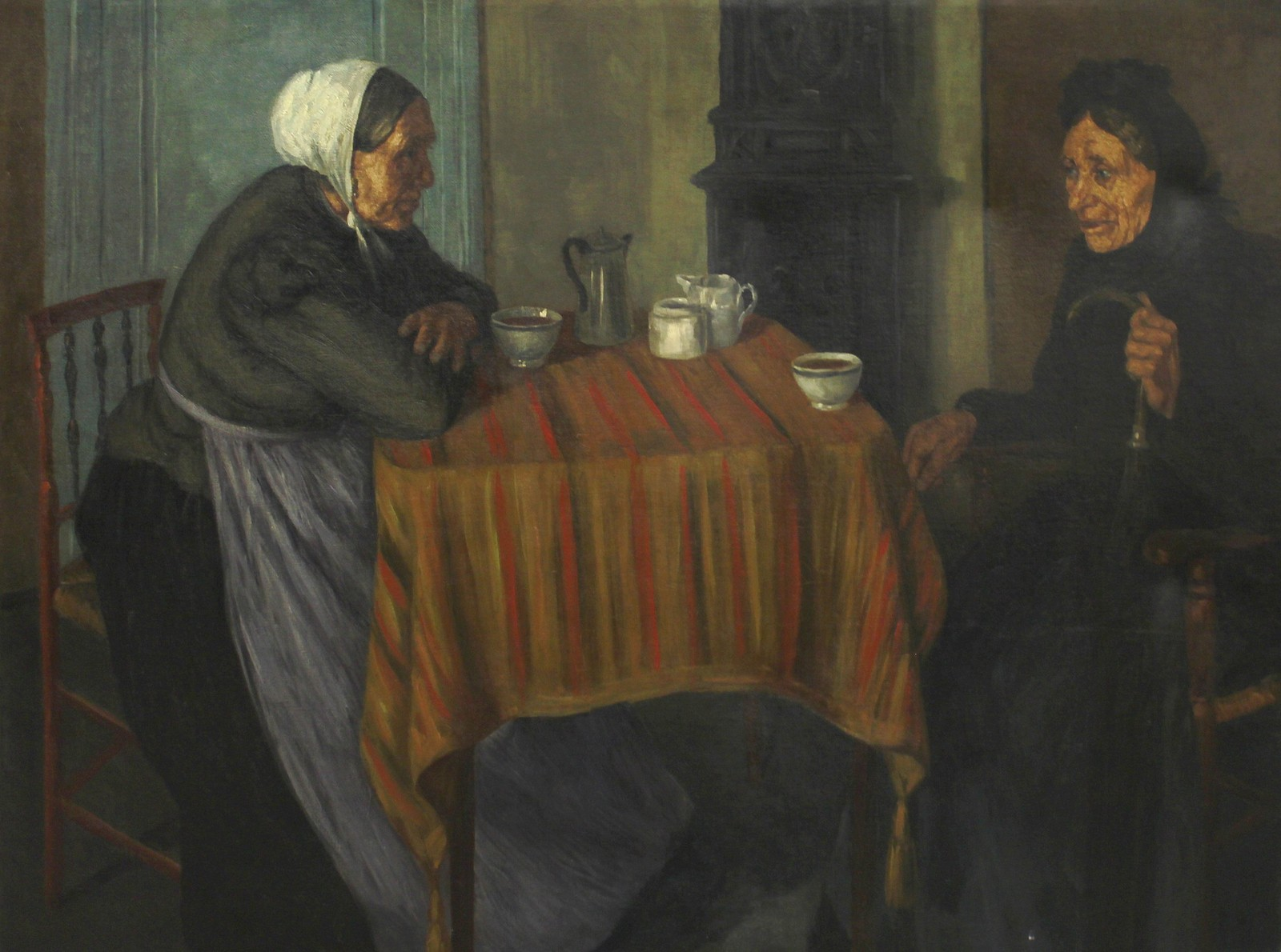 Two Women Having an Afetrnoon Coffee (Kaffeekränzchen)